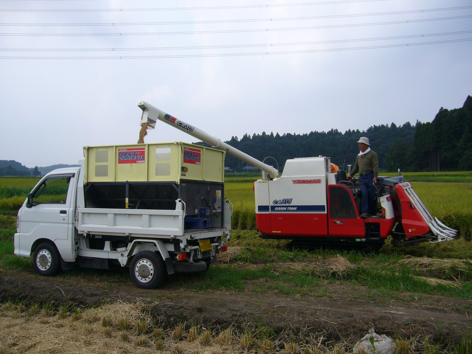 Yanmar rice combine harvester and rice truck, Katori-city, Japan